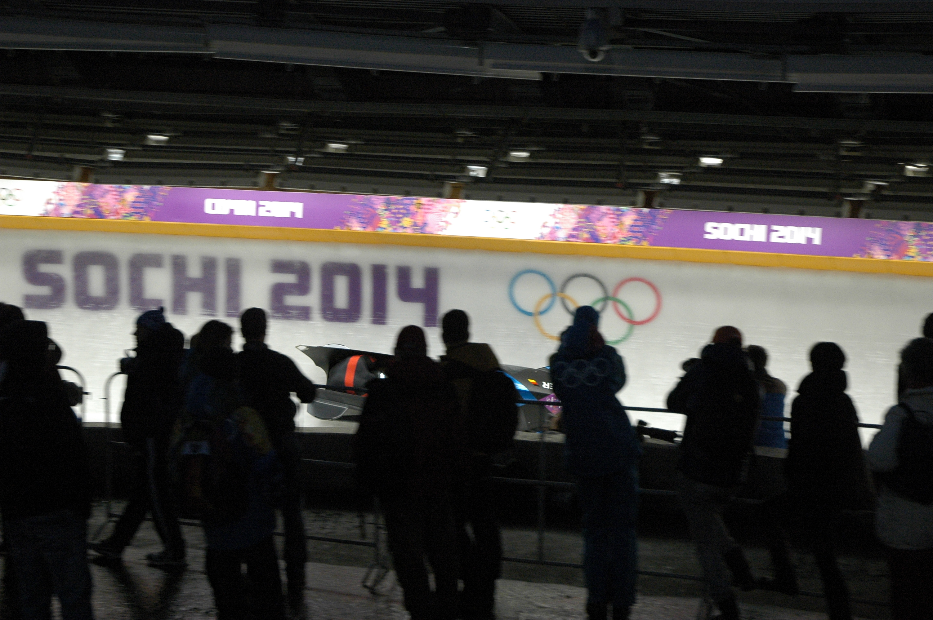 Two-man bobsleigh, 2014 Winter Olympics,Germany. GER-3: Maximilian Arndt & Alexander Rödiger